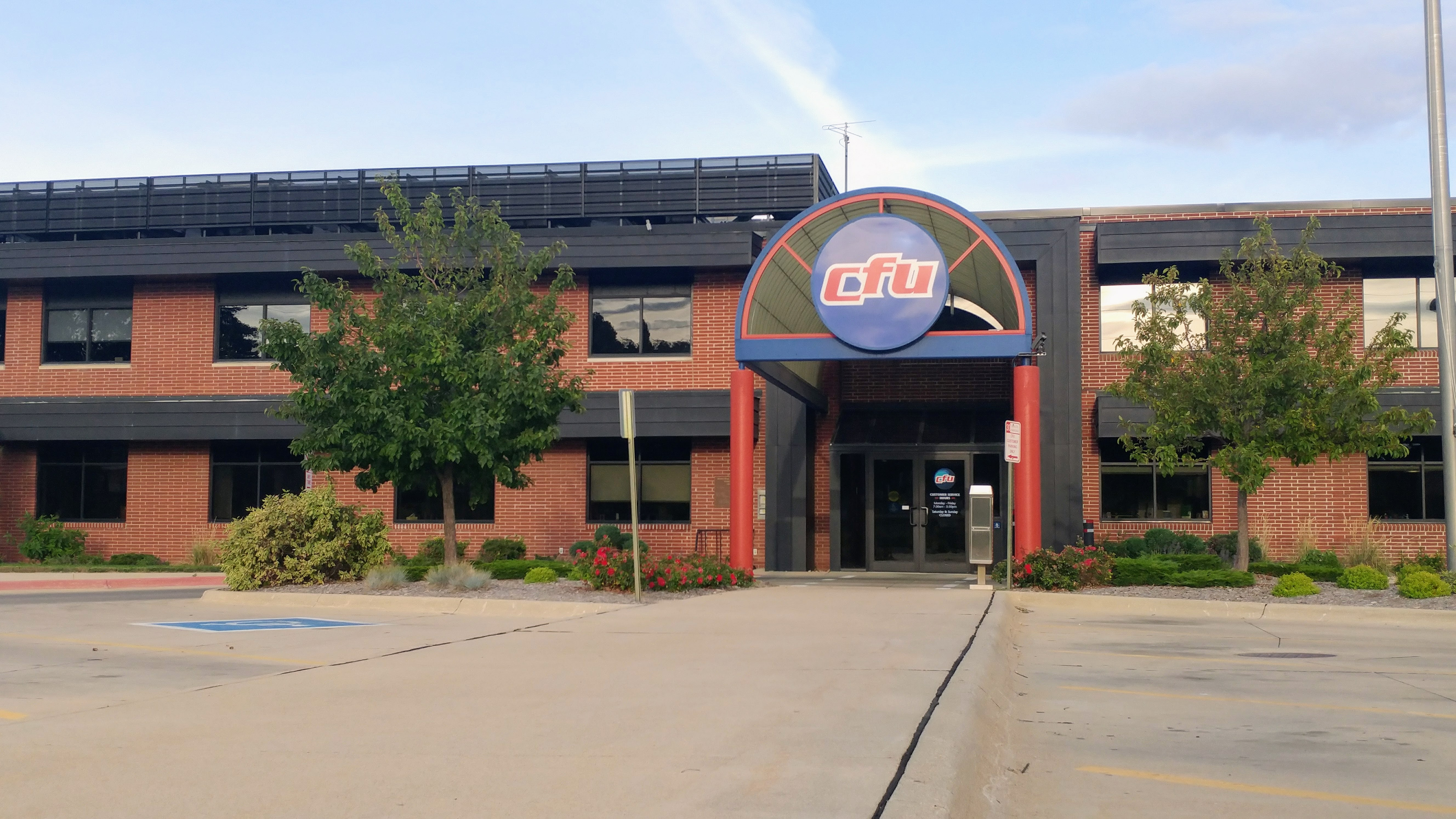 Main Entrance to Customer Service at Cedar Falls Utilities